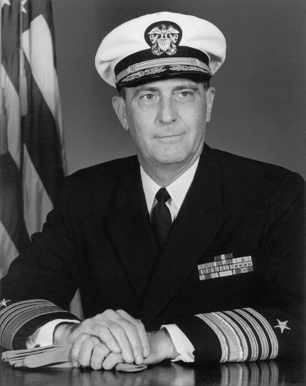 Official U.S. Navy photograph of Waldemar F. A. Wendt as a newly-appointed Admiral.